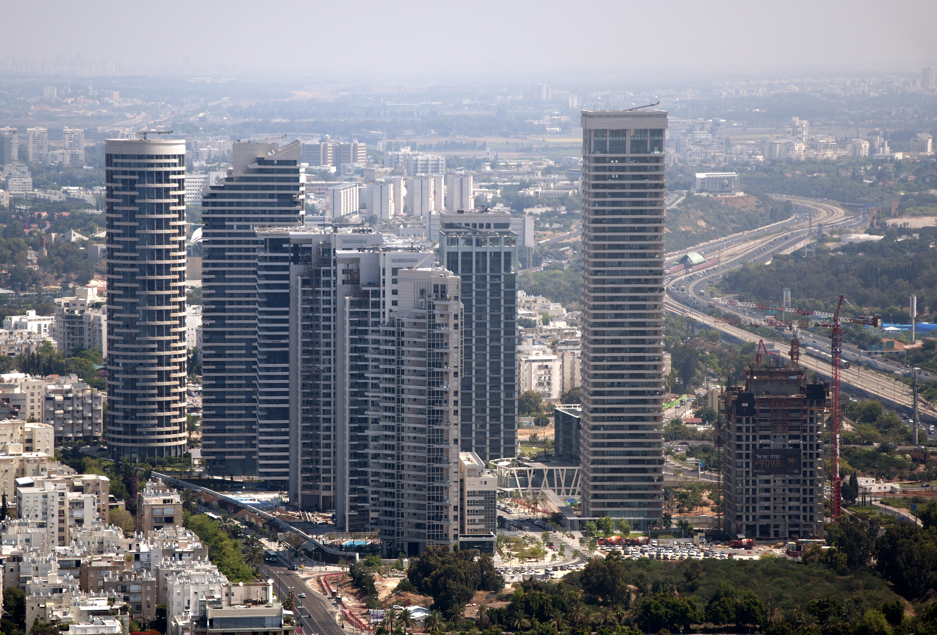 Park Tzameret is a high-end residential neighborhood in Tel Aviv, Israel. Taken from the Azrieli Center Circular Tower.